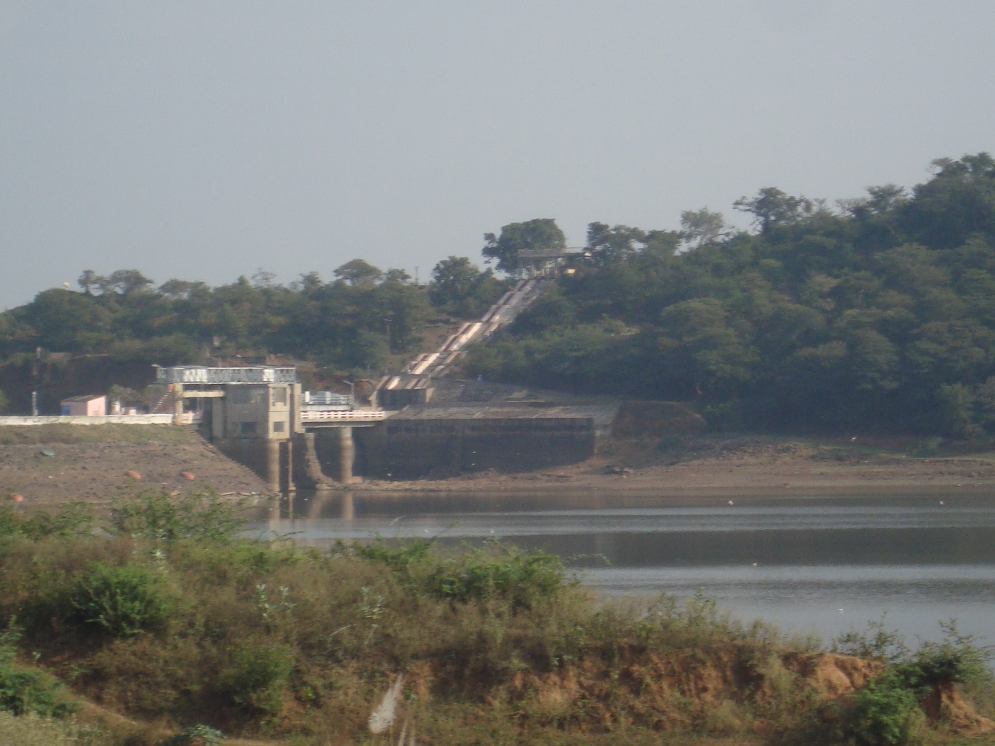 Gomukhi dam